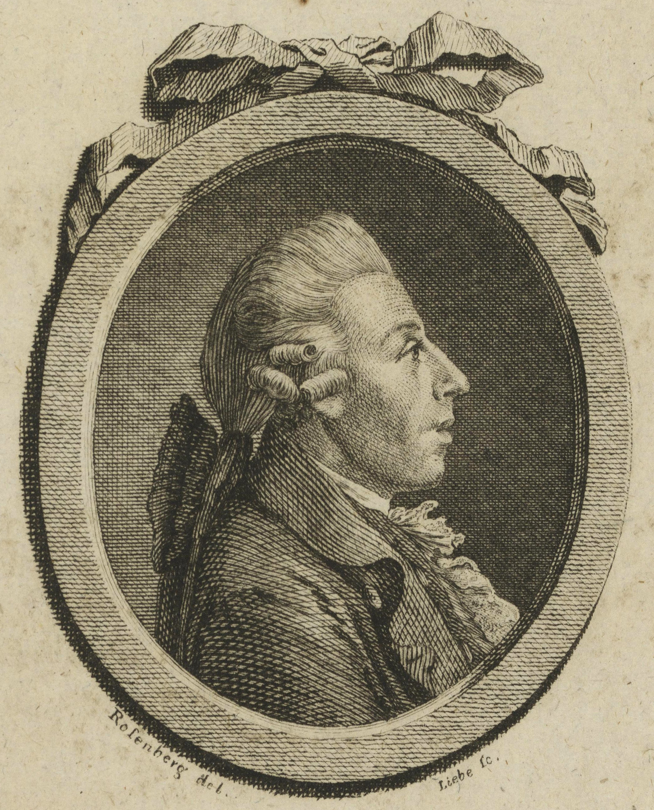 Depicted person: Christian Gottlob Neefe